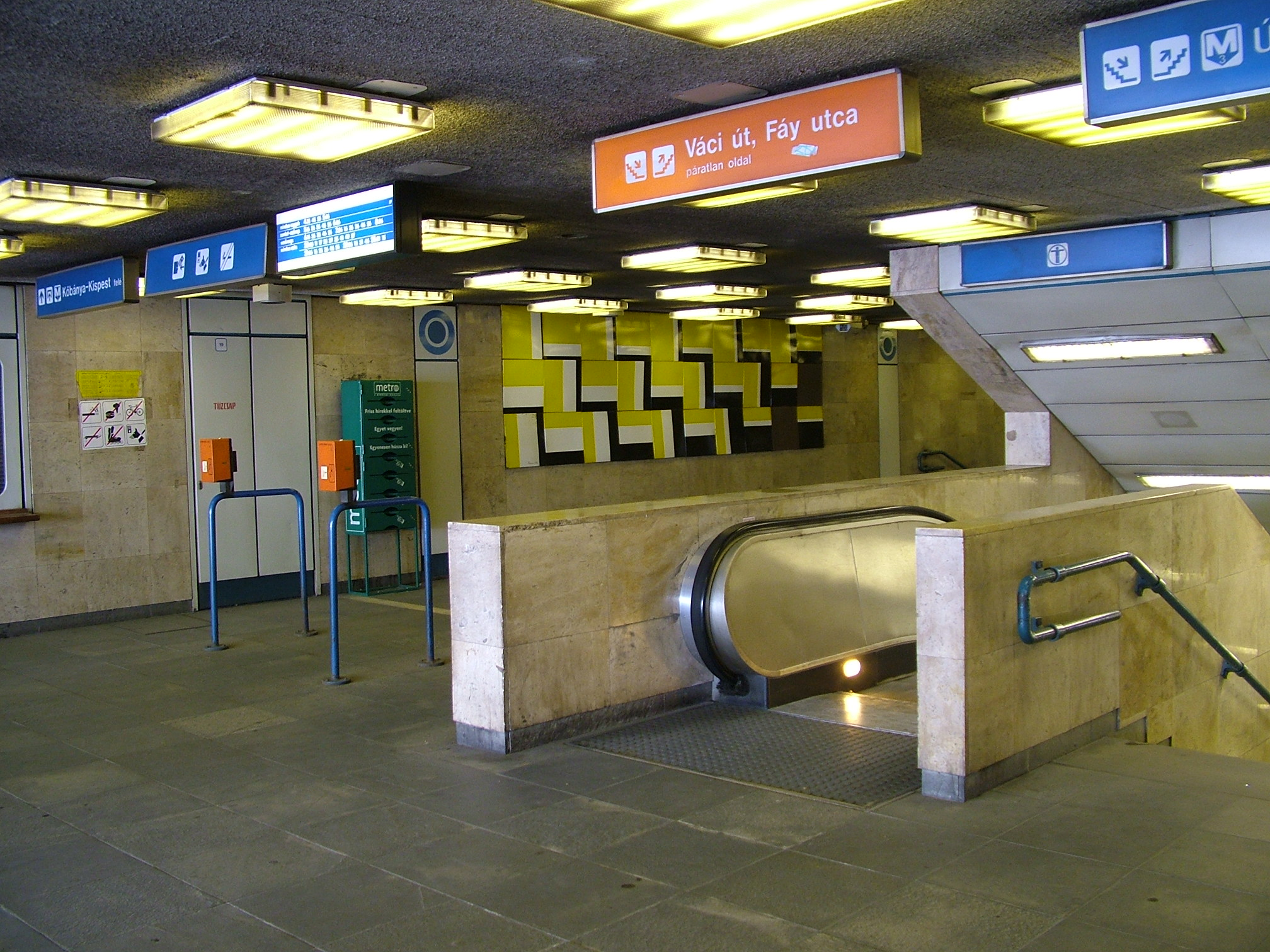 Budapest metro, Forgách utca a centrum felé utazva a peron, déli - a centrumhoz közelebb eső, - kijáratánál, a peronzárnál van a "Felszín és a mély". A Felszín és a mély Nemcsics Antal (festőművész) műve, 1990. A nap a sárga a felszínt és a barnásan sötét a mélyt jelképezi, a harmadik színként a fehérrel emeli ki a két helyszín kontrasztját, a színek táblánkénti területével a két helyszín közötti változást, azok lépcsős elrendezésével a helyváltozás technikai eszközét. Épületdísz murália, modern, absztrakt, acél és zománc anyagból.